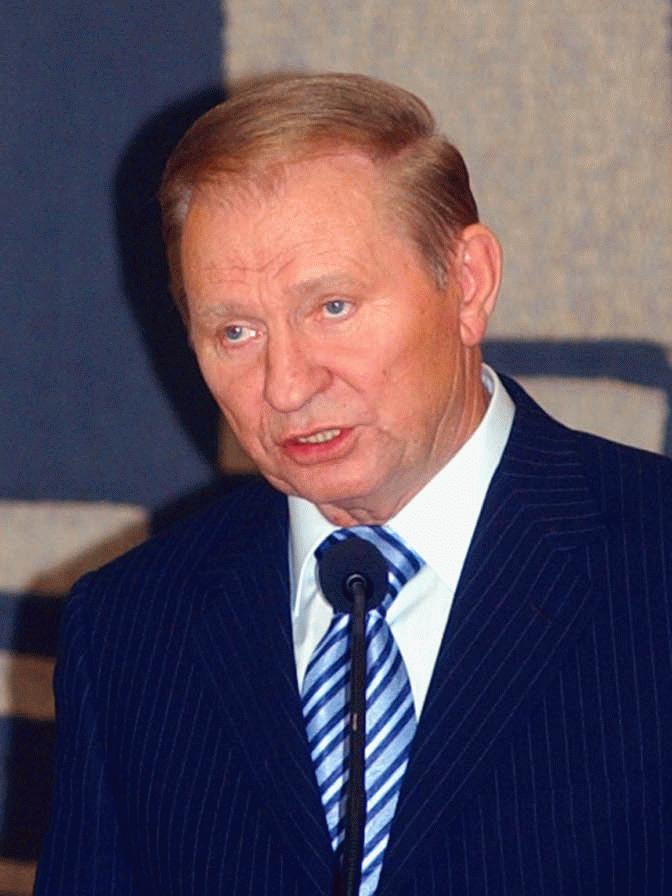 Second President of Ukraine Leonid Kuchma.